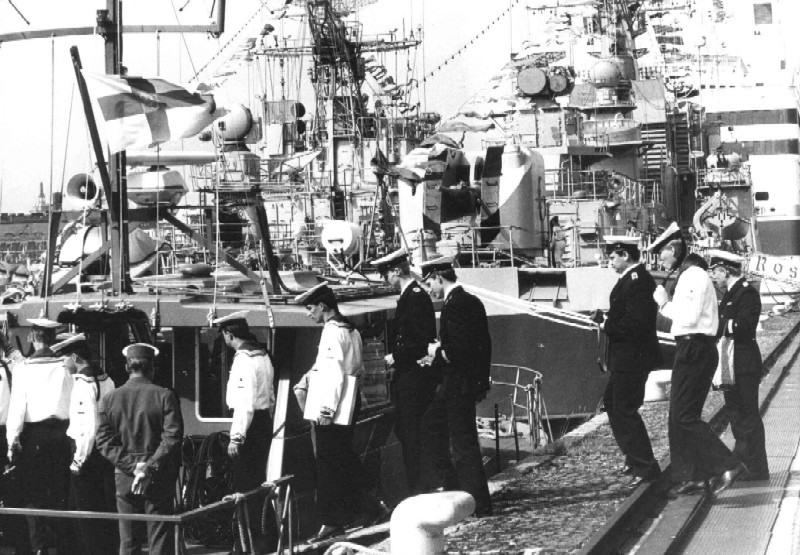 GDR navy ship "Rostock" (right) moored alongside GDR navy ship "Wismar" (left) in Helsinki harbor during an official visit.